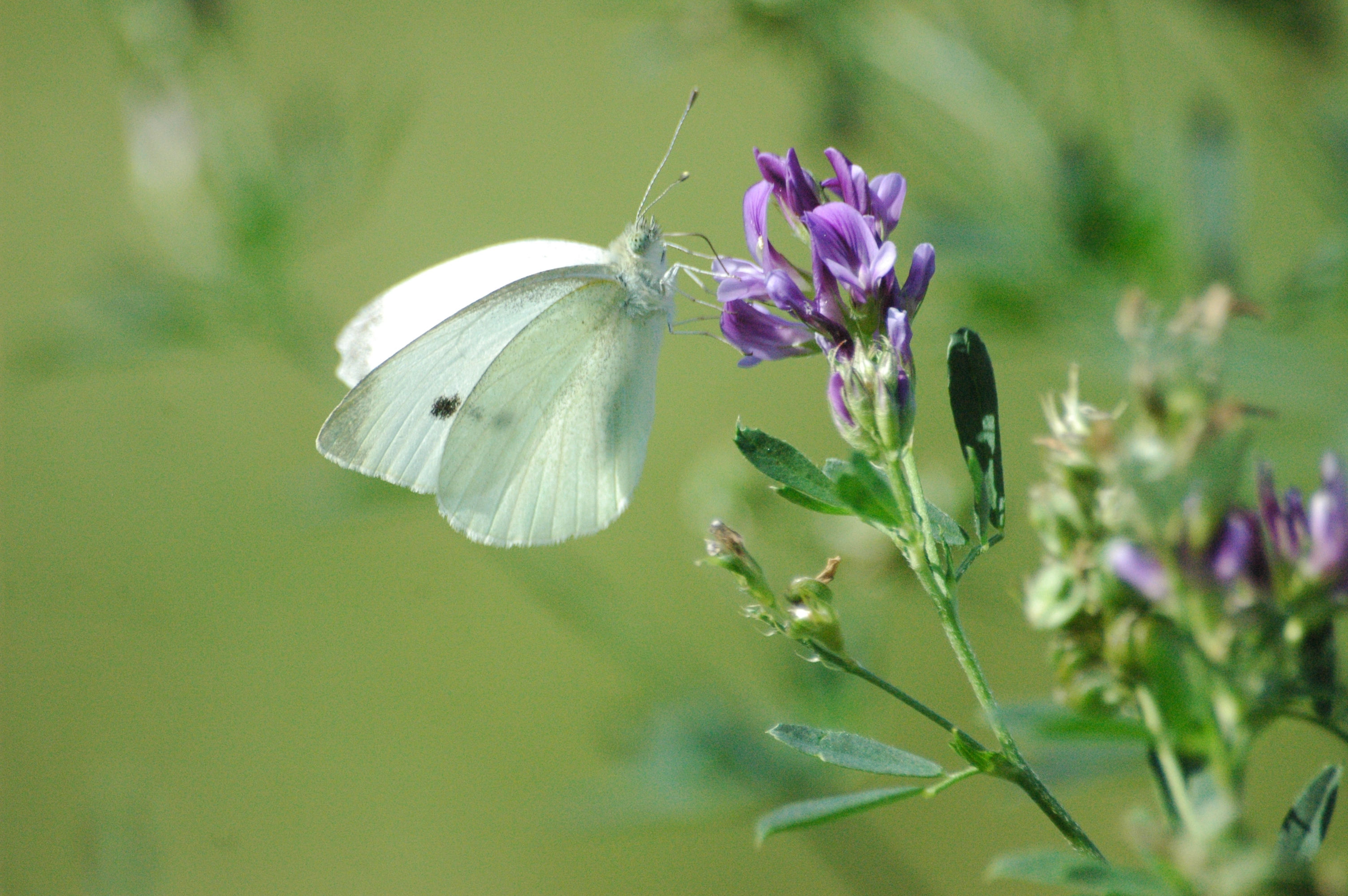 Small white butterfly (Pieris rapae), 65462 Ginsheim-Gustavsburg, Germany